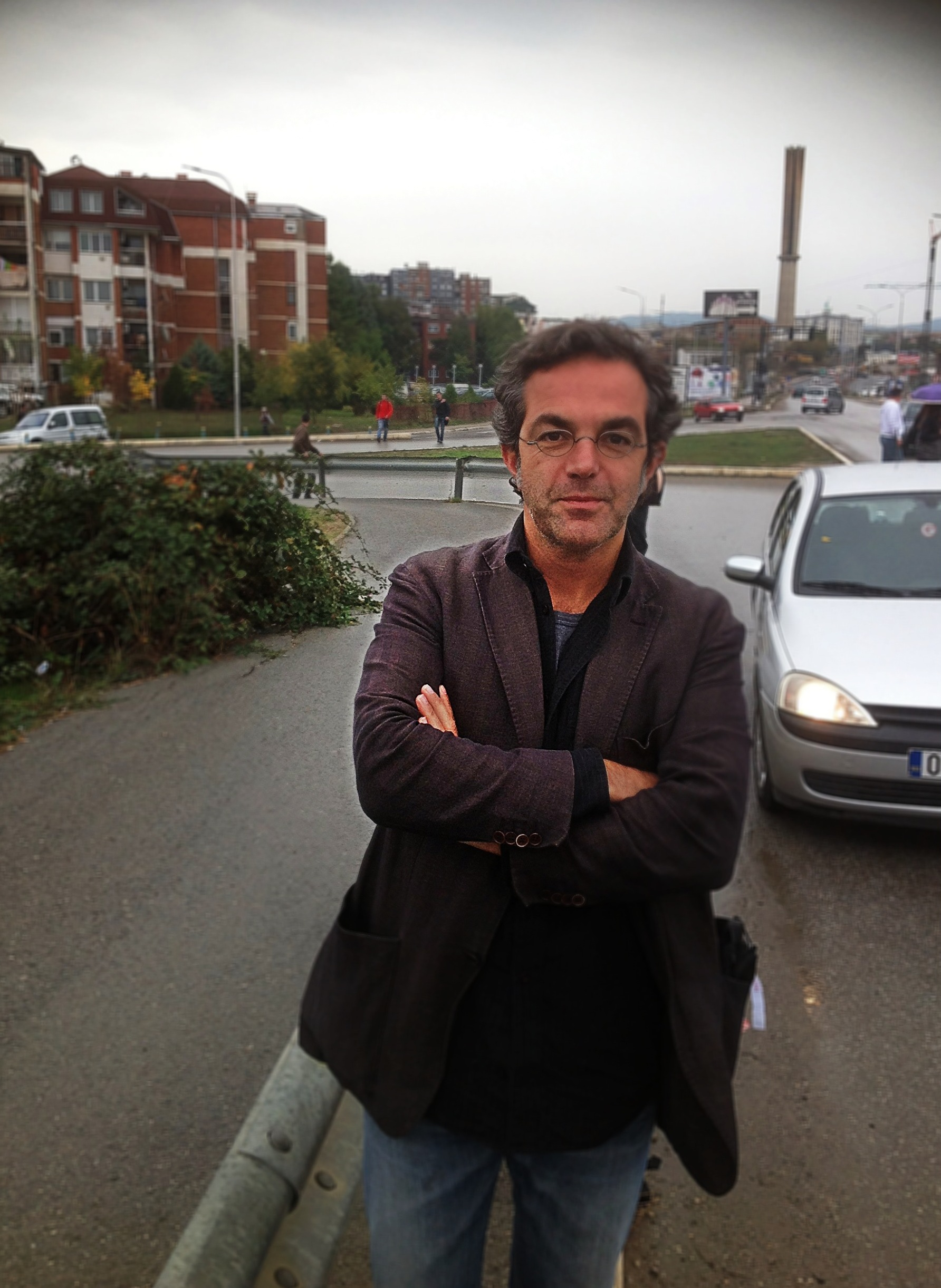 Navid Kermani in Pristina, Kosovo. Photo: Saam Schlamminger